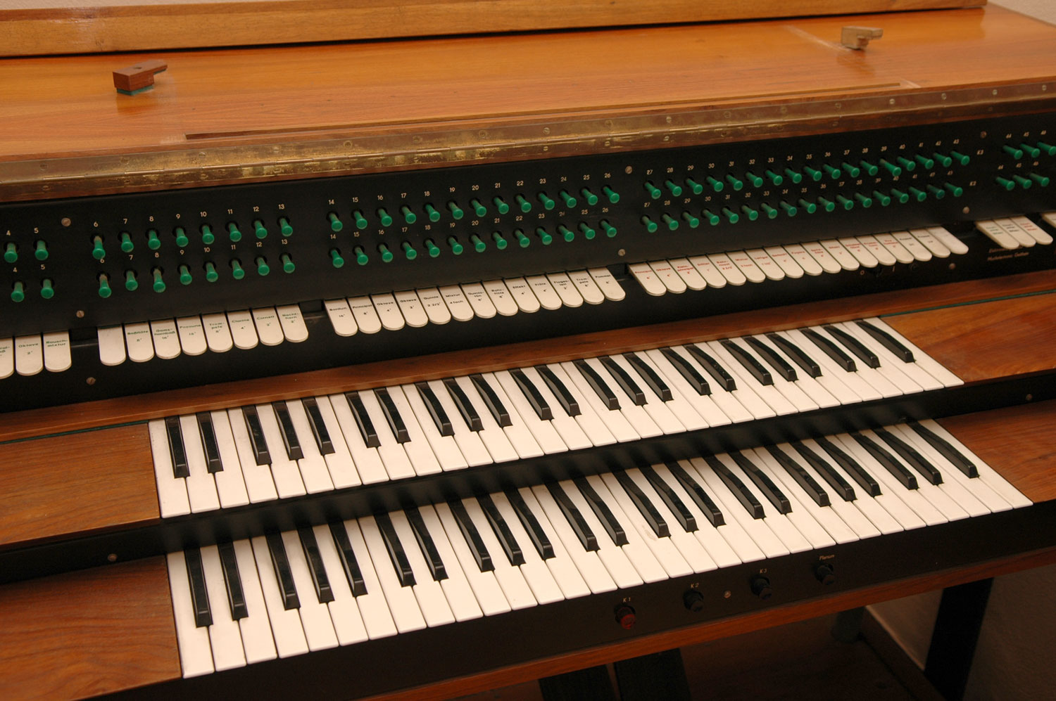 Electronic Organ by Musicelectronic Geithain